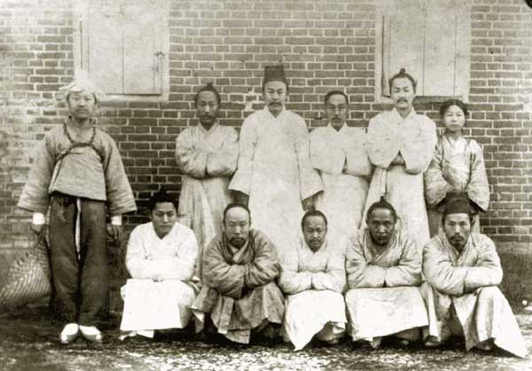 1899. Syngman Rhee (Far left)